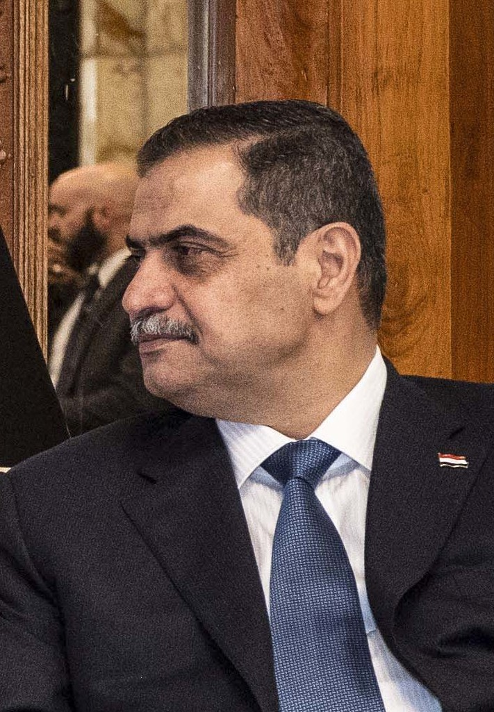 Defense Secretary Mark T. Esper gives remarks during a bilateral ceremony at the Ministry of Defense with Iraq Defense Minister Najah al-Shammari in Bagdad, Iraq, Oct. 23, 2019. (DoD photo by U.S. Army Staff Sgt. Nicole Mejia)